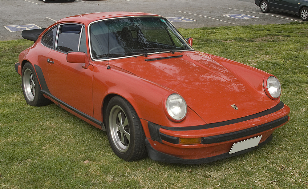 1978–1983 Porsche 911SC.